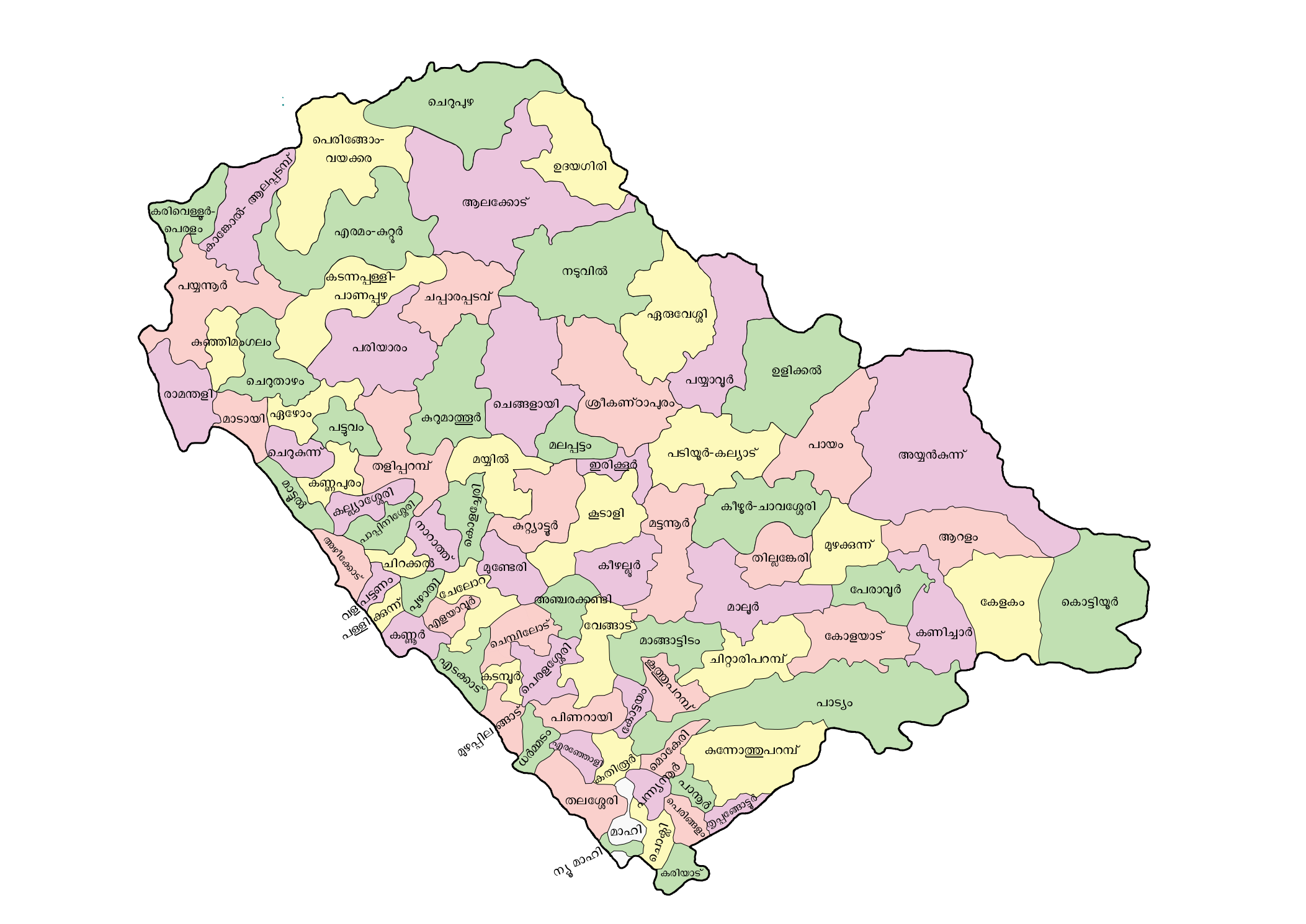 map pf panchayaths in kannur district, kerala, india